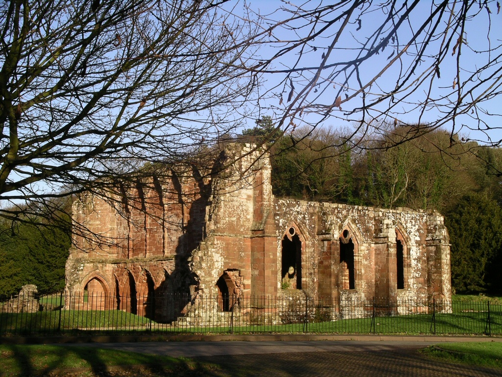 Furness Abbey, South West Cumbria, UK. Photograph taken by a family member of Mikef.